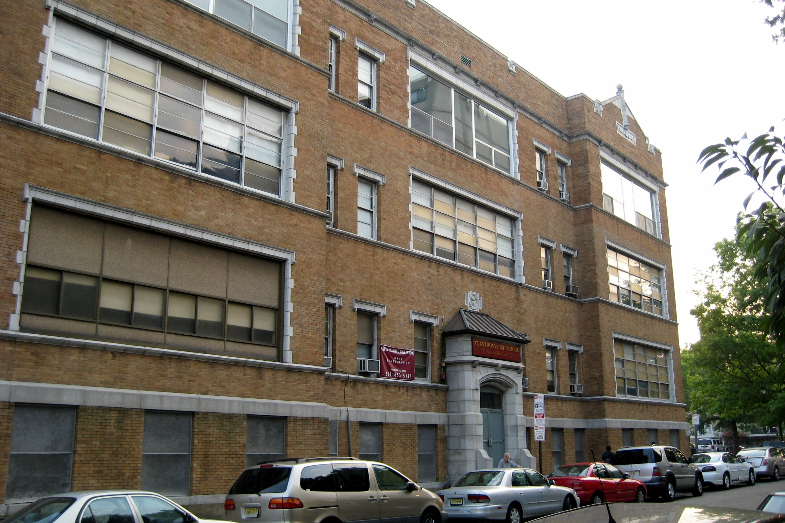 St. Anthony High School, 175 Eighth St, Jersey City, NJ